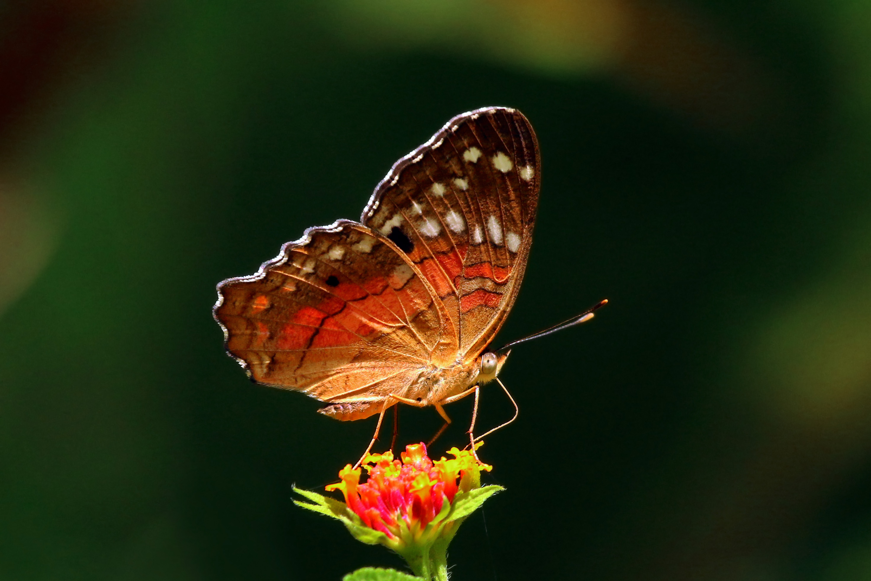 Scarlet peacock butterfly (Anartia amathea) male, Asa Wright Nature Centre, Trinidad